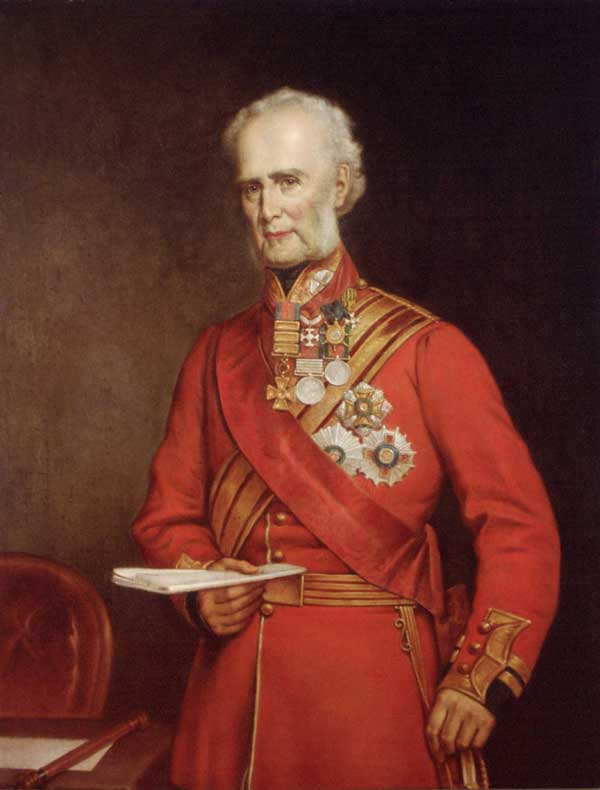 Field Marshal Sir John Colborne, GCB, GCMG (Baron Seaton), Lieutenant Governor of Guernsey, Lieutenant Governor of Upper Canada, founder of Upper Canada College, Commander-in-Chief of the British armed forces during the Rebellions of 1837 in the Canadas, Acting Governor of British North America, Commander-in-Chief of Ireland